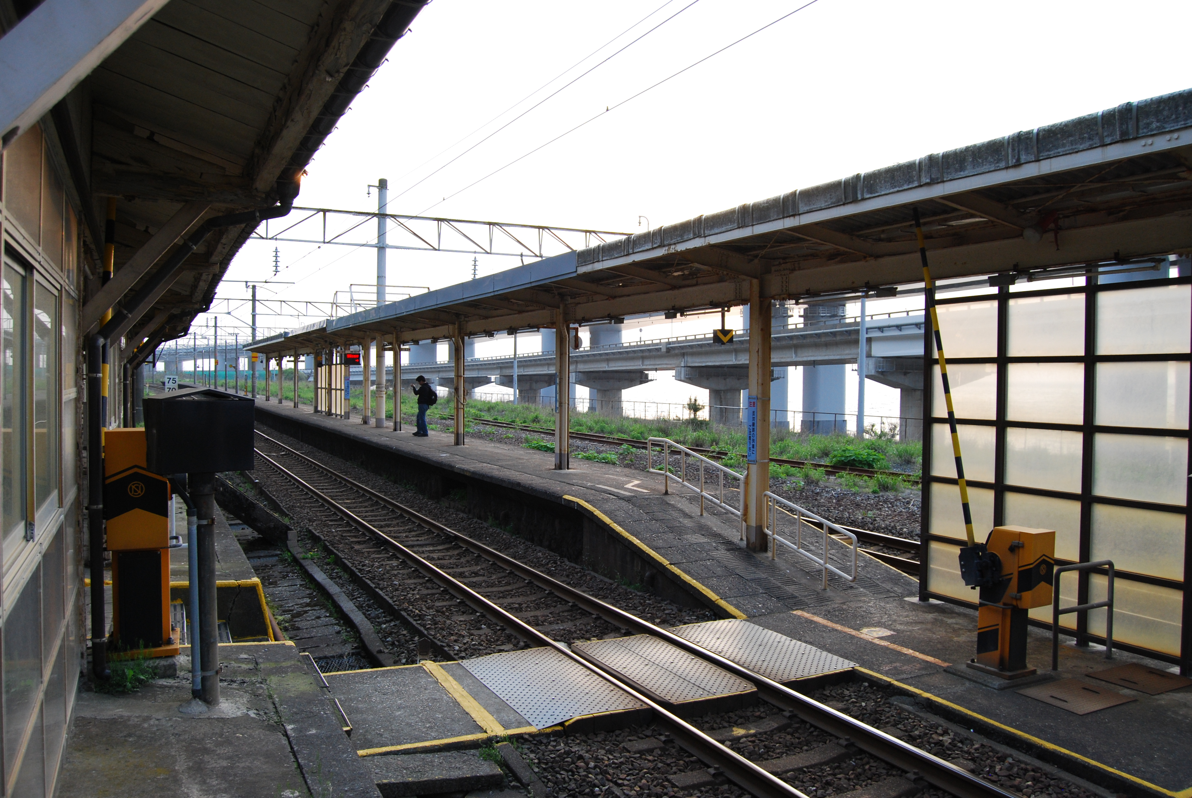 Oyashirazu Station enclosure